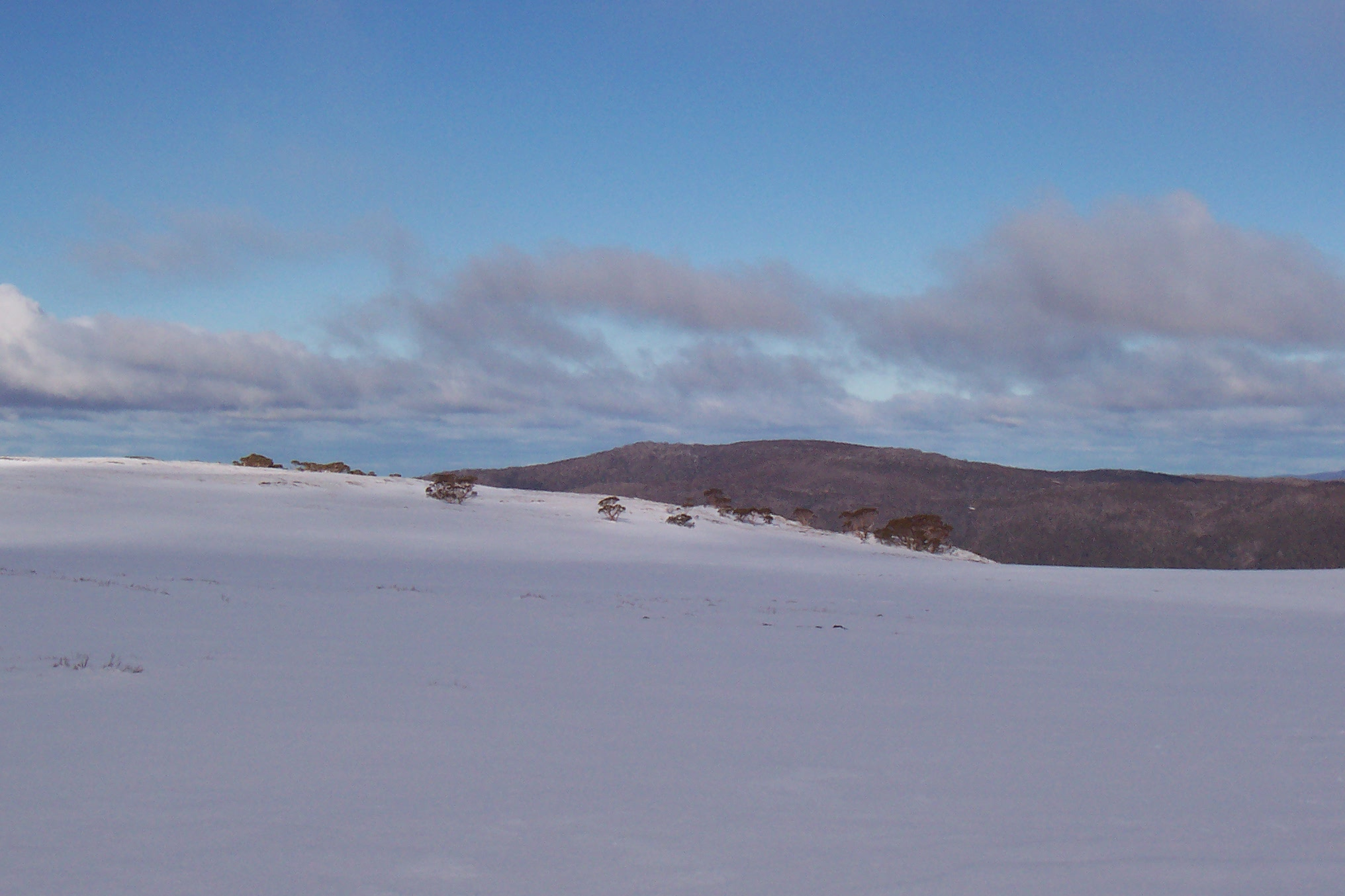 This is original photography. Taken winter 2004. Maelgwn 11:57, 9 November 2005 (UTC)